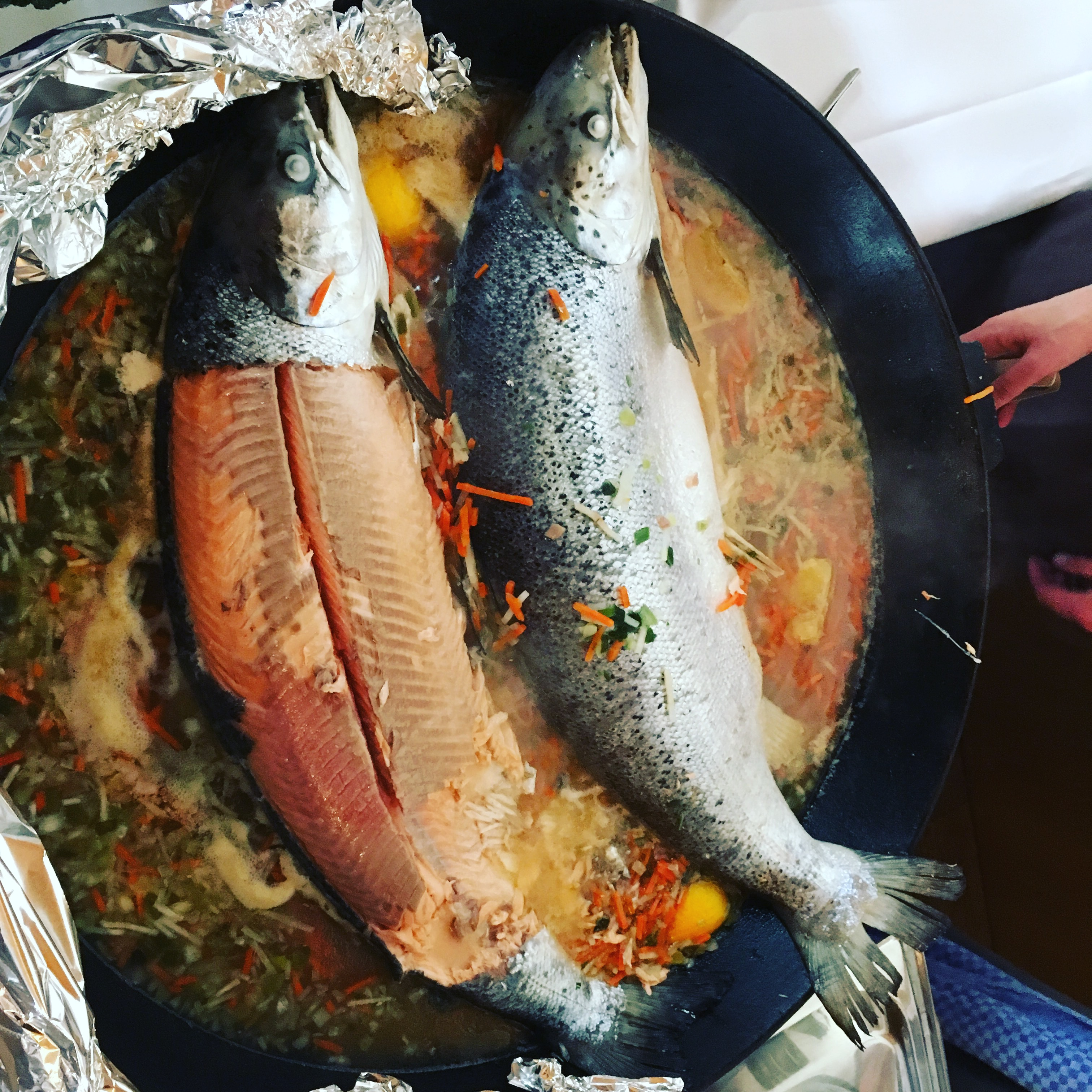 Trout in the pan